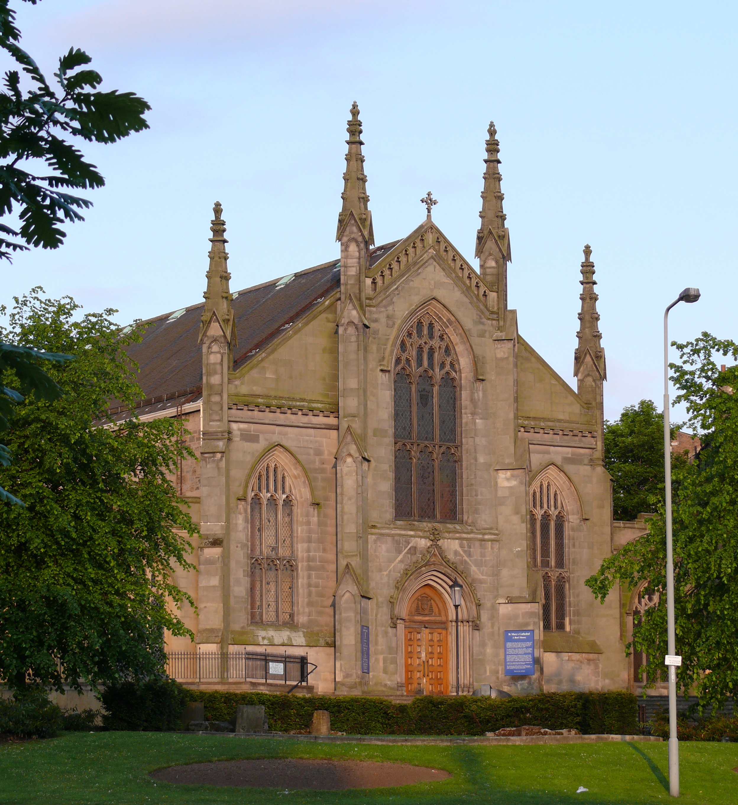 The Metropolitan Cathedral Church of Our Lady of the Assumption (St Mary's Cathedral, Edinburgh) is a Roman Catholic cathedral located in Edinburgh near York Place.